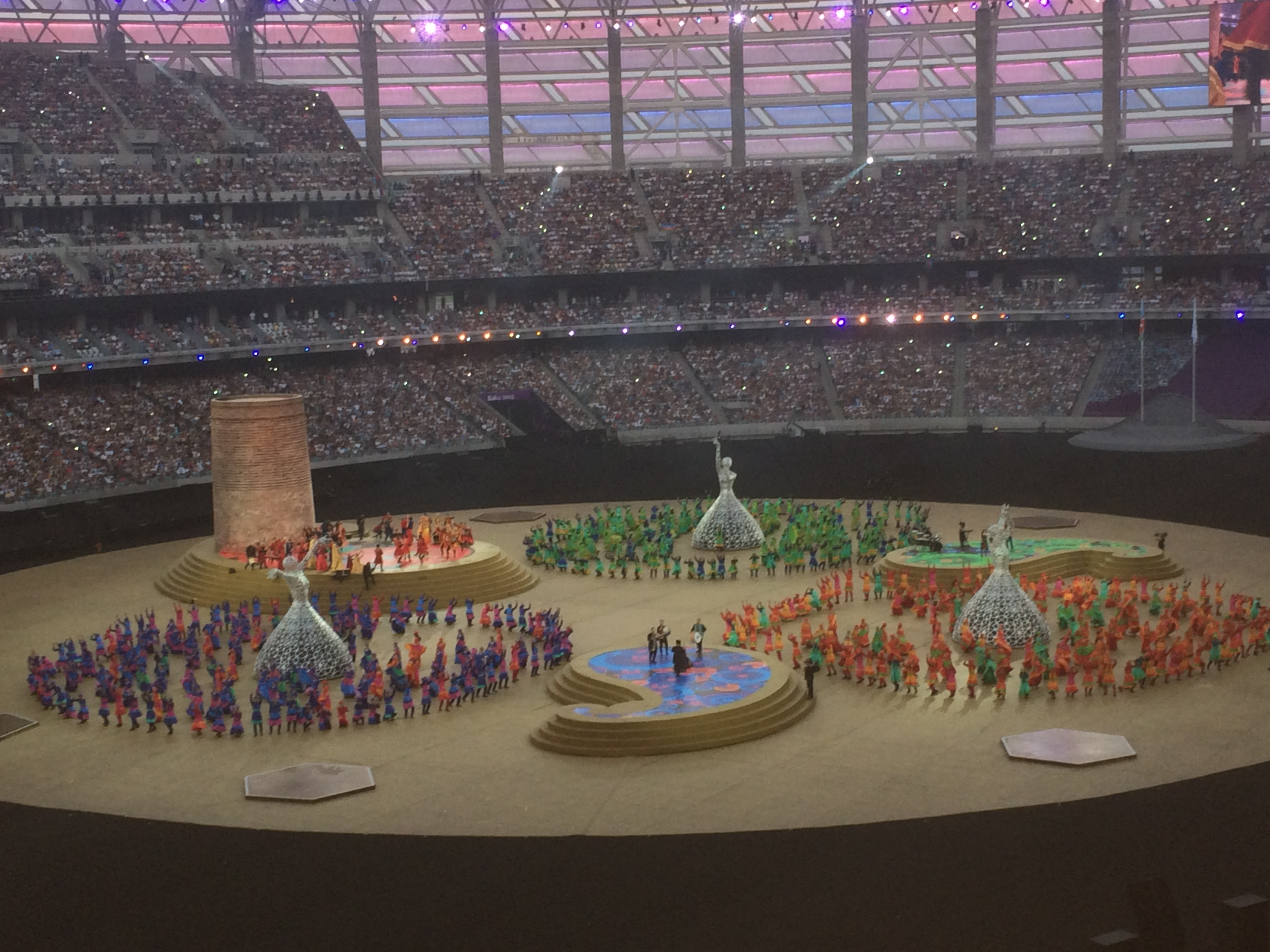 Baku 2015, closing ceremony